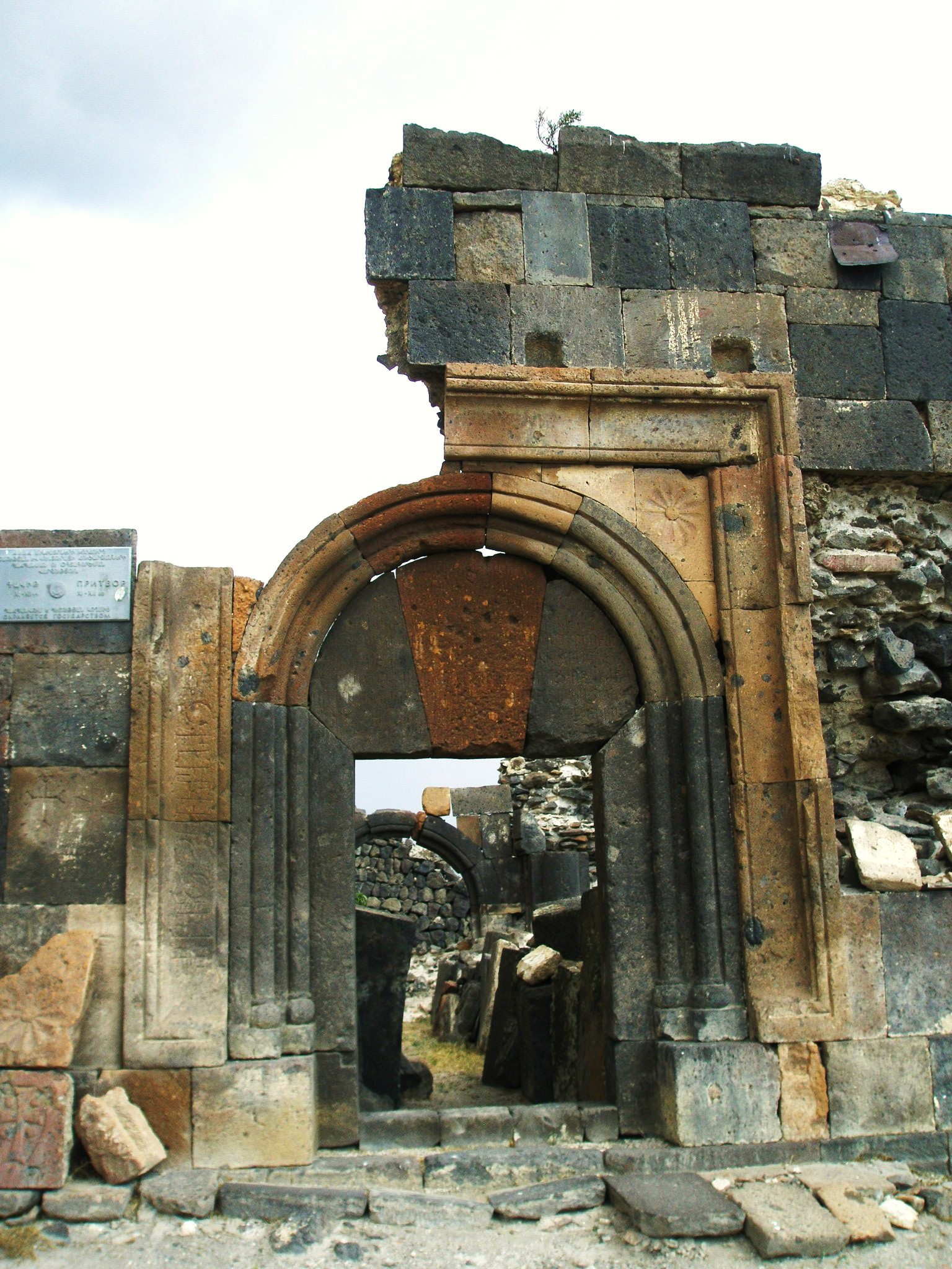 Portal to the Surb Astvatsatsin Church of Saint Sargis Monastery of Ushi.